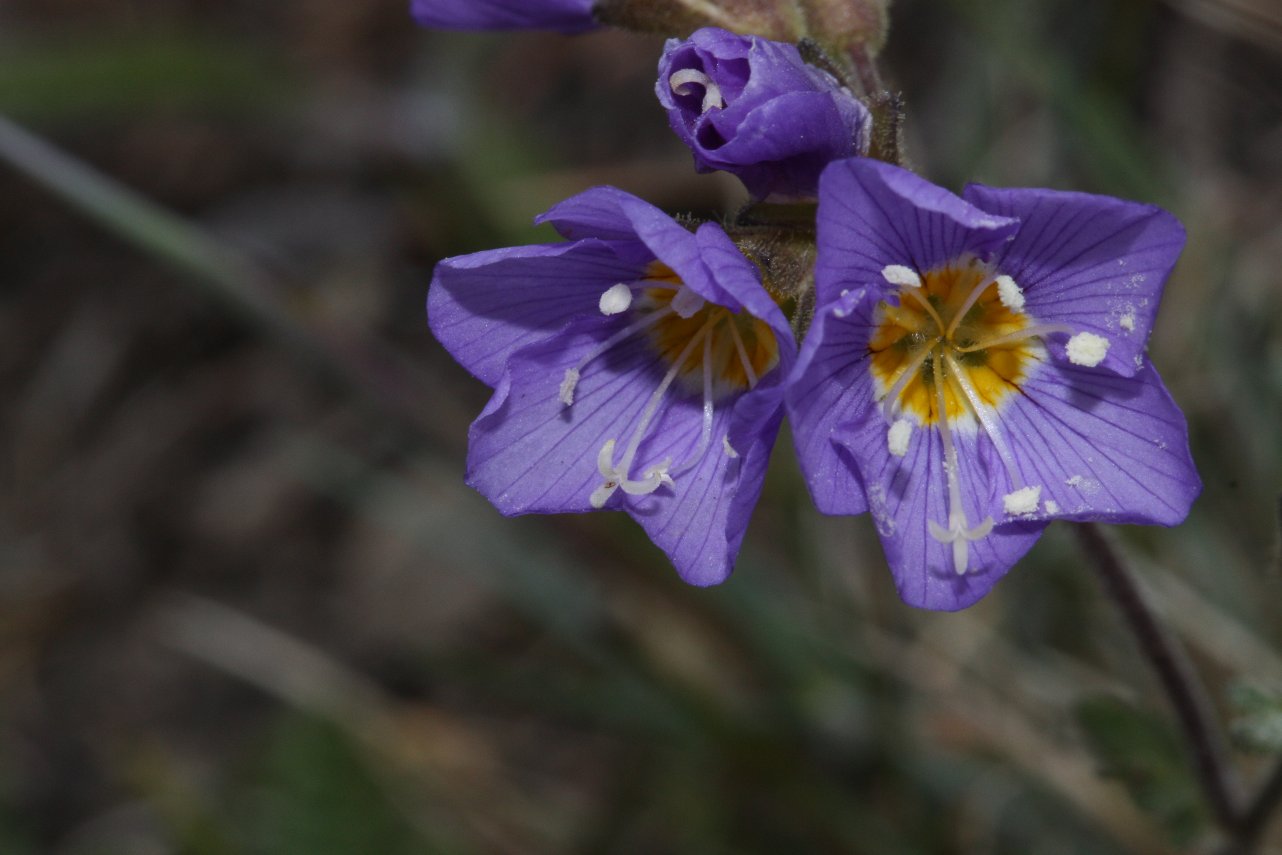 Skunk-leaved Polemonium, Showy Polemonium